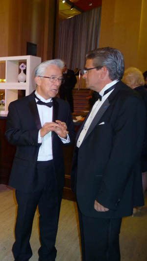 Professor Choon Fong Shih, Founding President KAUST (left) and Professor Ares Rosakis (right) at the Franklin Institute Awards Ceremony honoring Professor Subra Suresh, President, Carnegie Mellon University, April 25, 2013